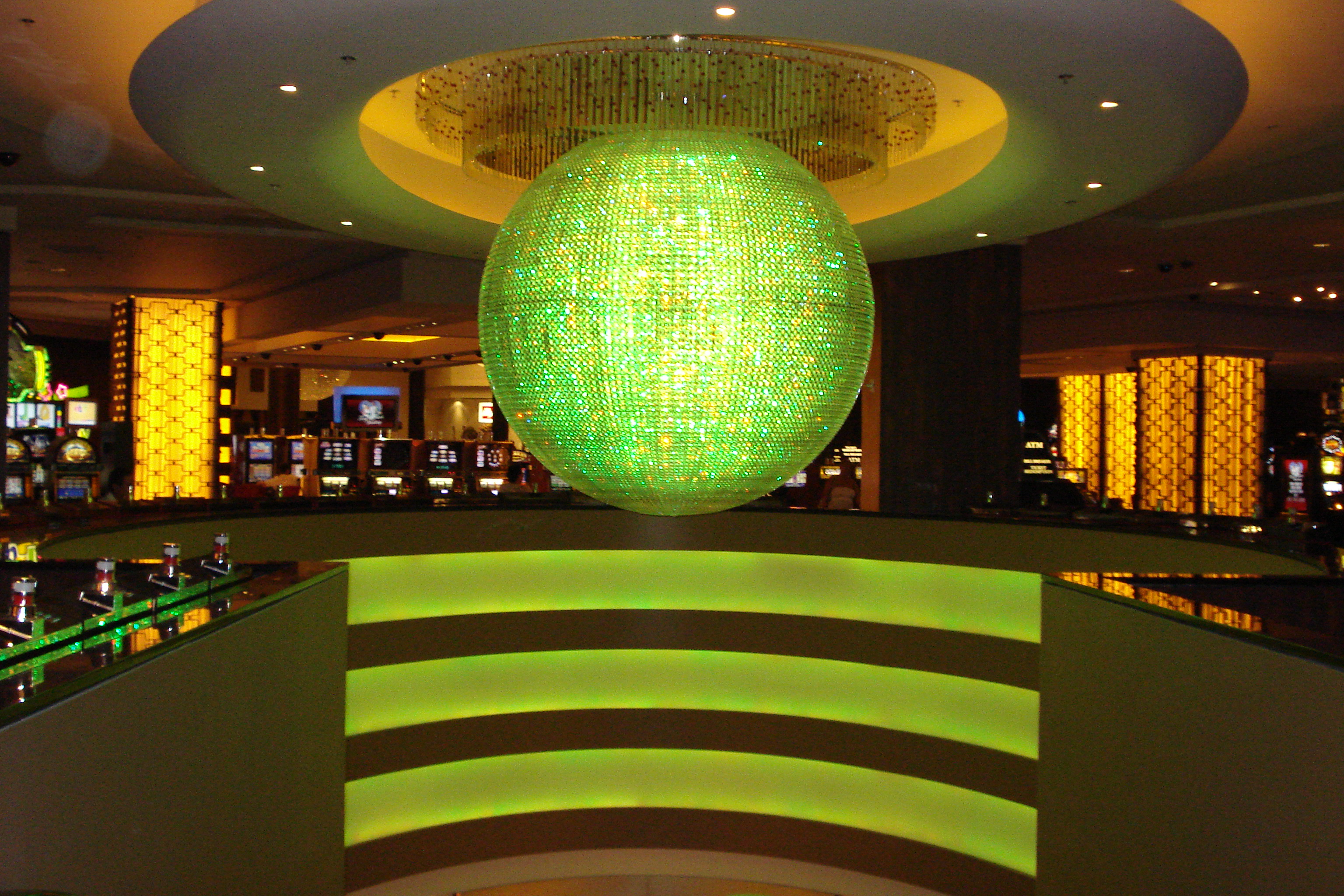 Entrance from Lobby to Casino-Lobby of Planet Hollywood RESORT and Casino-Las Vegas